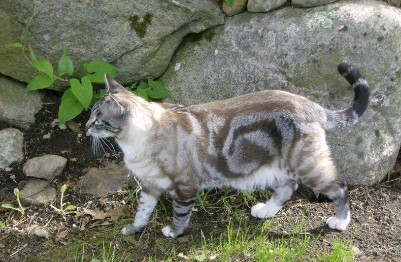 Grey and silver classic tabby cat.